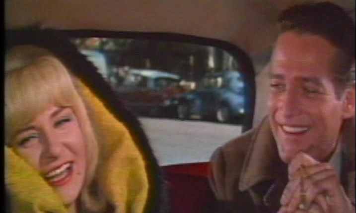 Screenshot of Joanne Woodward and Paul Newman from the trailer for the film A New Kind of Love